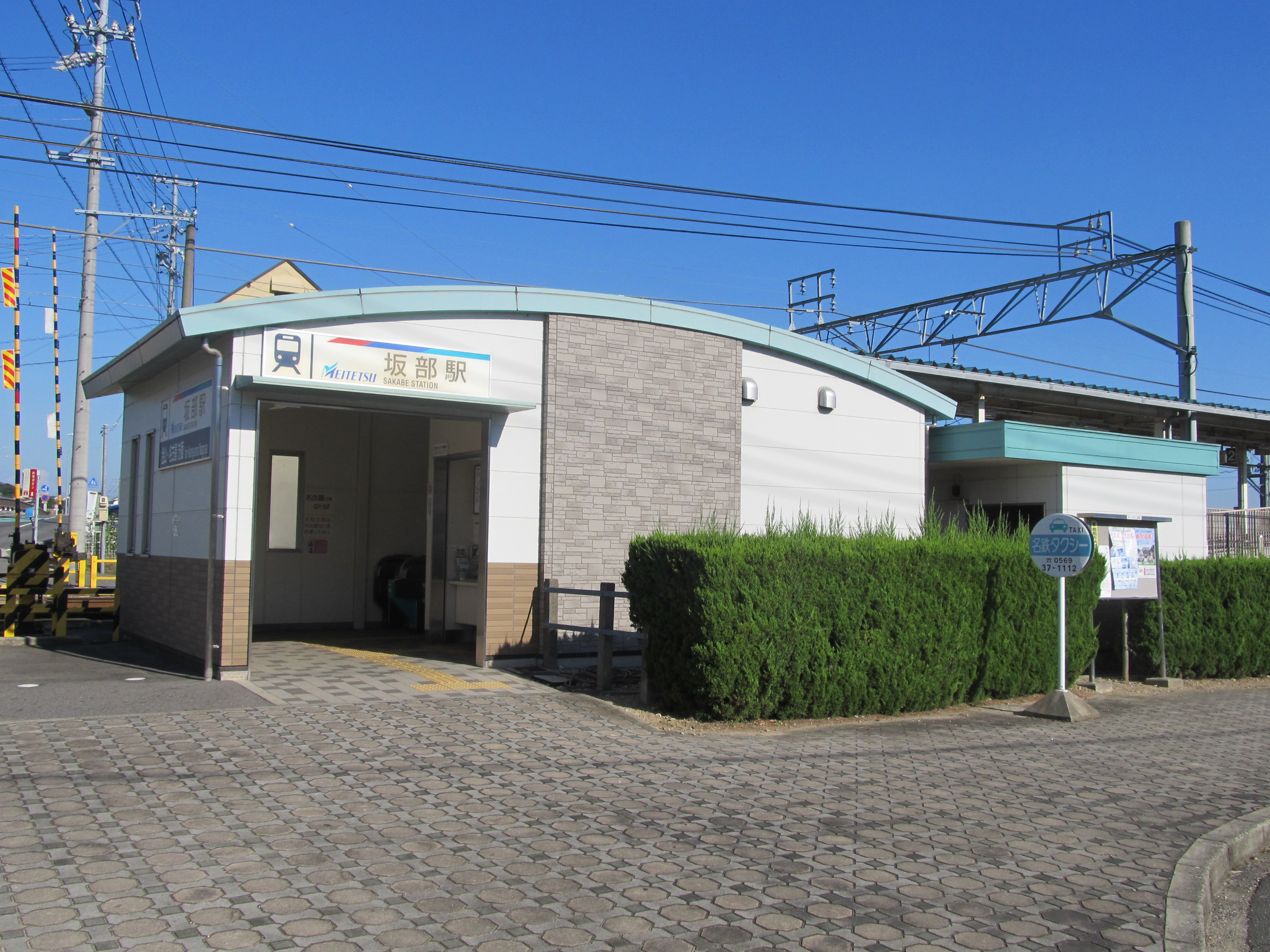 Nagoya Railroad Kowa Line Sakabe Station Building (for Ōtagawa)